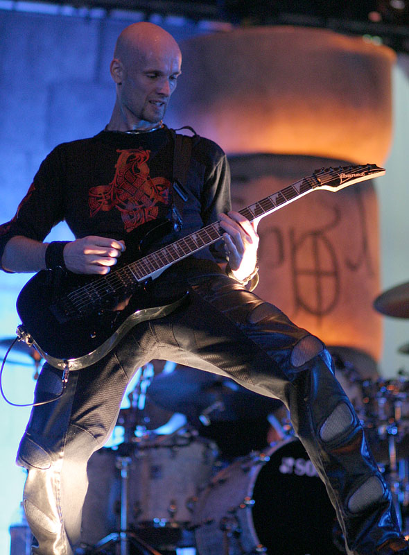 Robert Westerholt, guitarist of Dutch metal band Within Temptation, at the Appelpop 2004 festival.